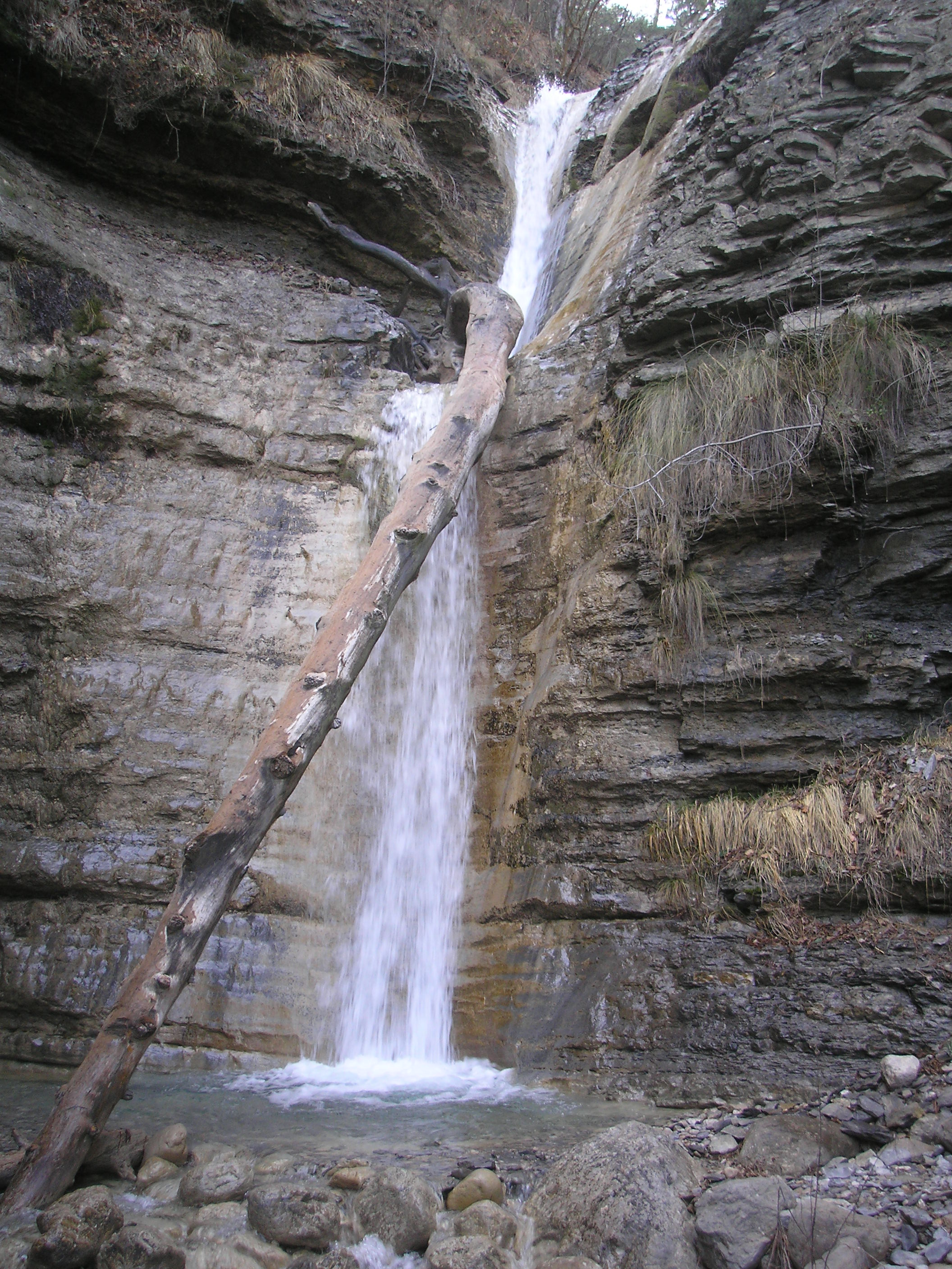 Waterfall on the river Yauzlar Crimea.